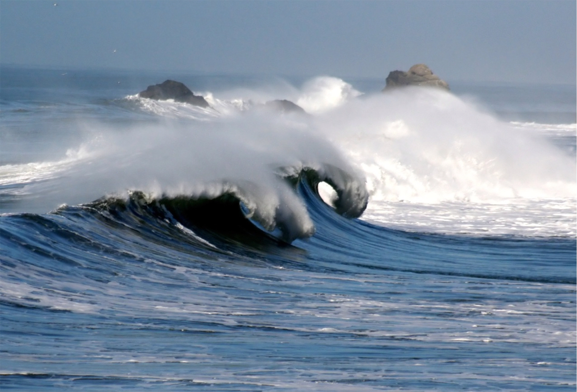 Sea Storm in Pacifica, California